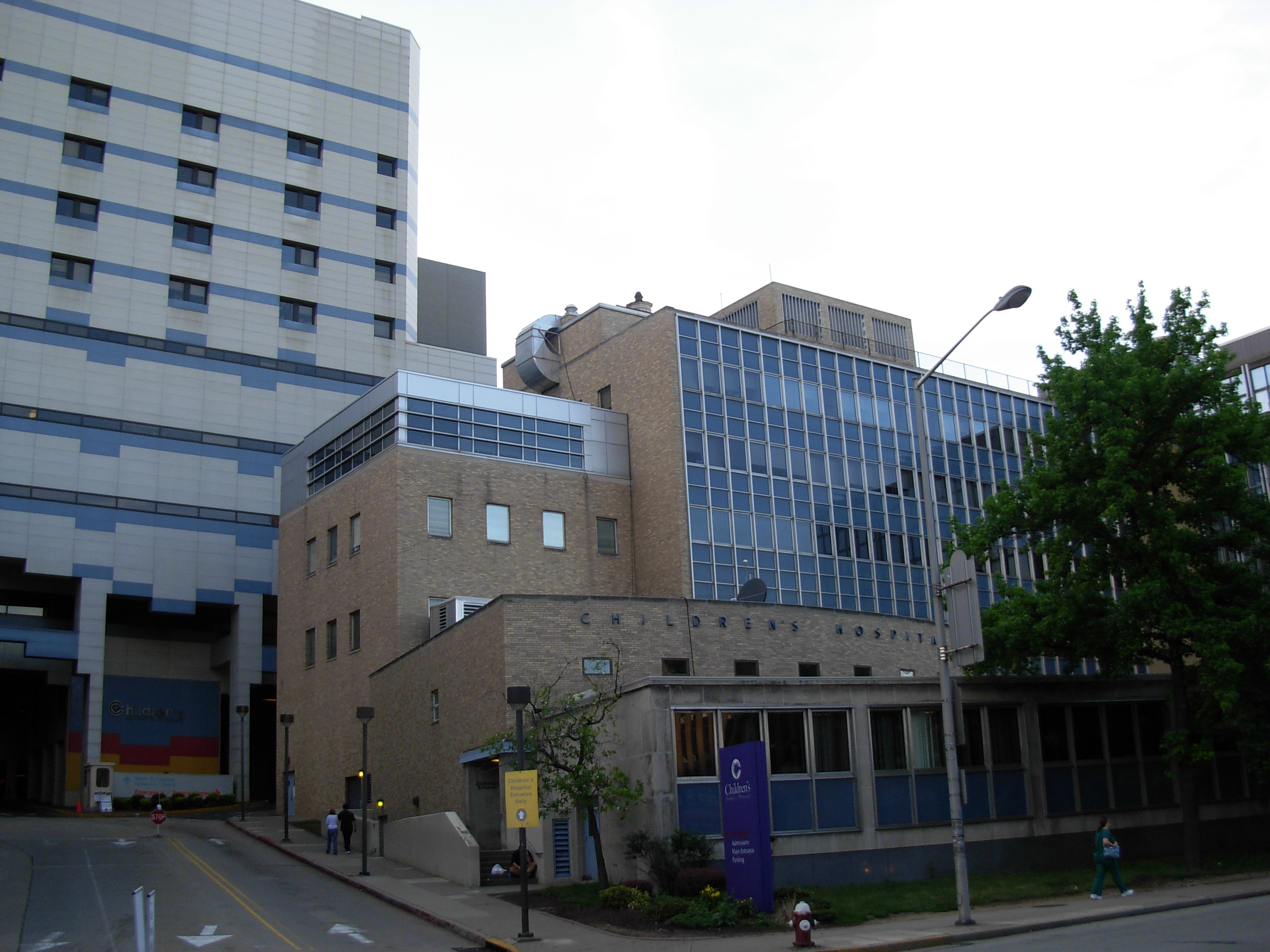 Children's Hospital of Pittsburgh, affiliated with University of Pittsburgh Medical Center